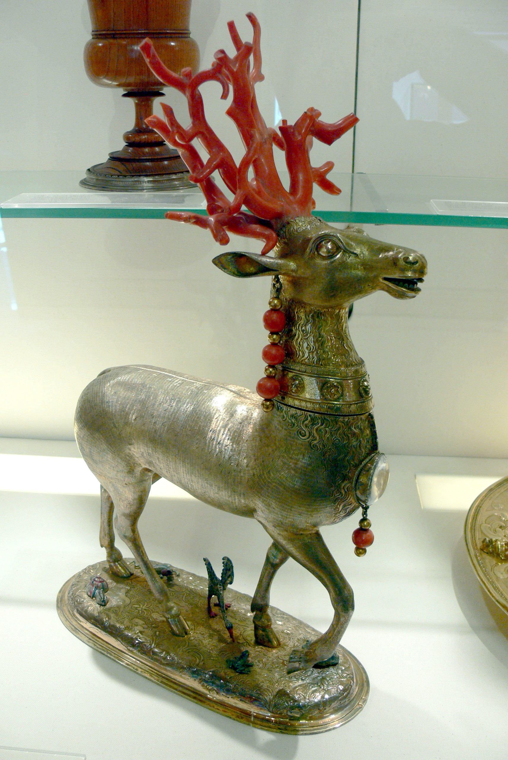 Vienna, Treasury of the German Order. So called "Zochascher Willkomm" (1667): Goblet in form of a deer, made of gilted silver and red coral, by Melchior Bayr, from Augsburg (Inv.-Nr. G-026)